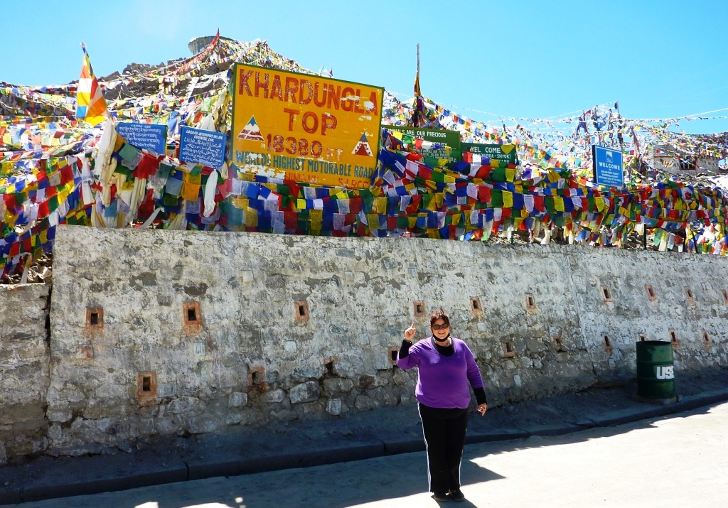 I took this photo while crossing the Khardungla into Nubra in 2010